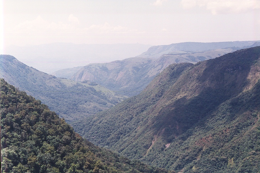 The Pungwe and Nyazengu Gorges, Nyanga National Park, Zimbabwe